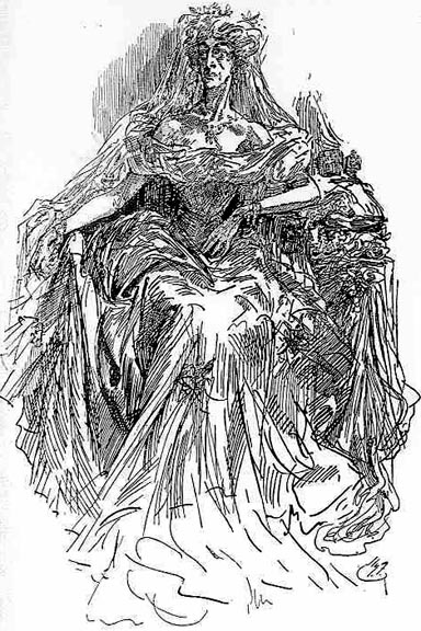 Miss Havisham, in art by Harry Furniss from the library edition of Charles Dickens's Great Expectations.